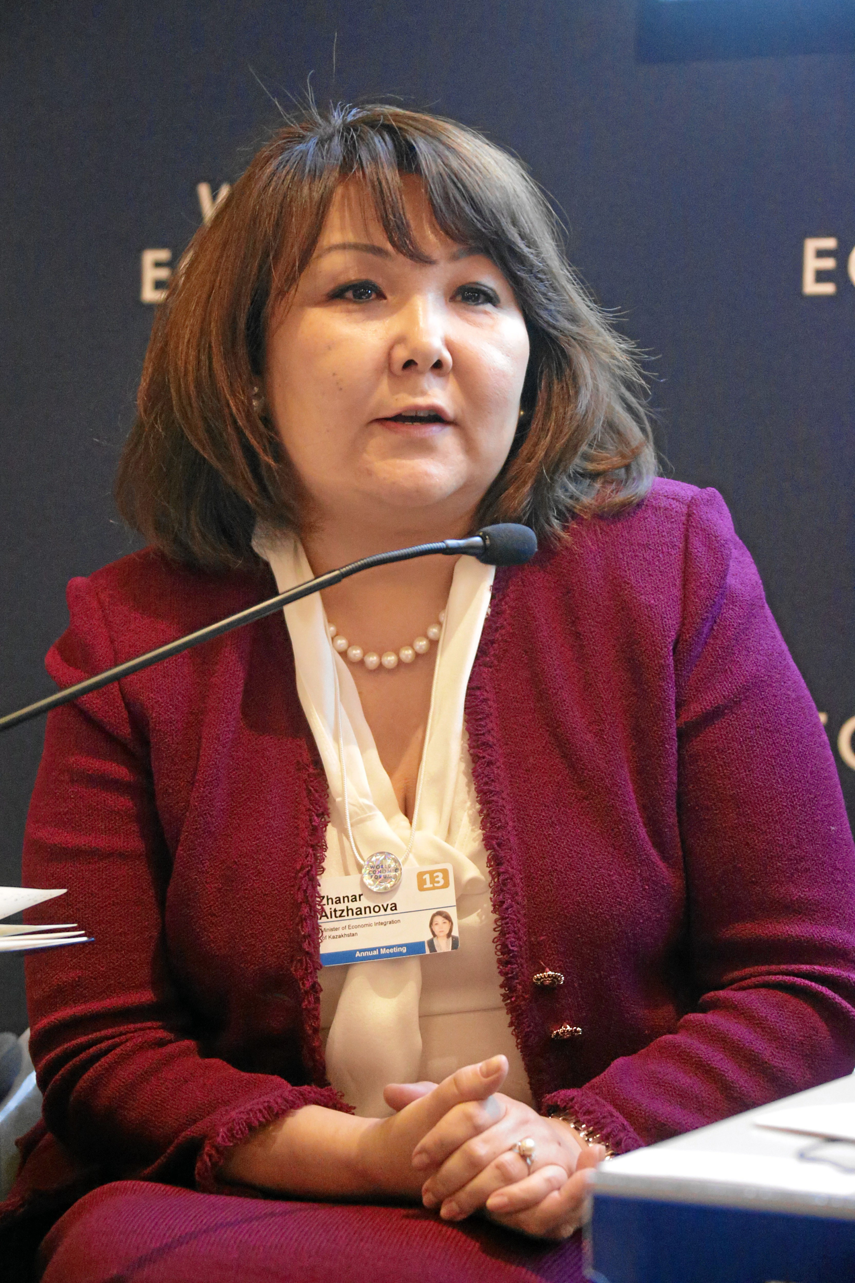 DAVOS/SWITZERLAND, 23JAN13 - Zhanar Aitzhanova, Minister of Economic Integration of Kazakhstan speaks during the interactive session 'A New Dawn for Central Asia - Rebuilding Economic Confidence' at the Annual Meeting 2013 of the World Economic Forum in Davos, Switzerland, January 23, 2013.. . Copyright by World Economic Forum. . Remy Steinegger